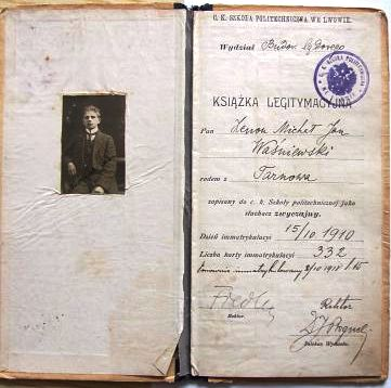 The titles pages of Zenon Wiśniewski's index.